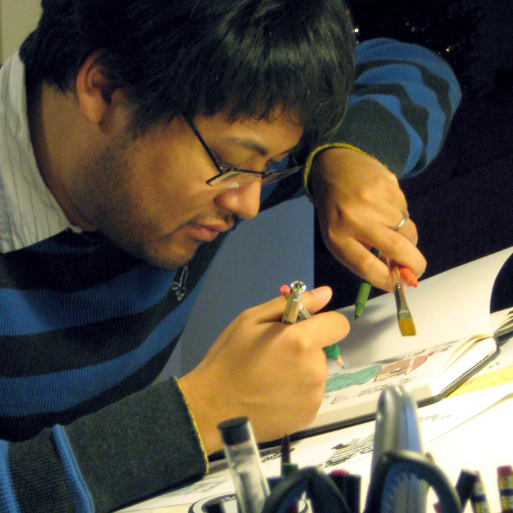 I am the creator of this image and I approve its use on Wikipedia. Also found here